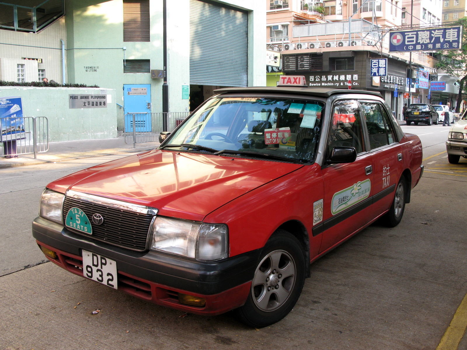 Toyota Crown Comfort in Hong Kong